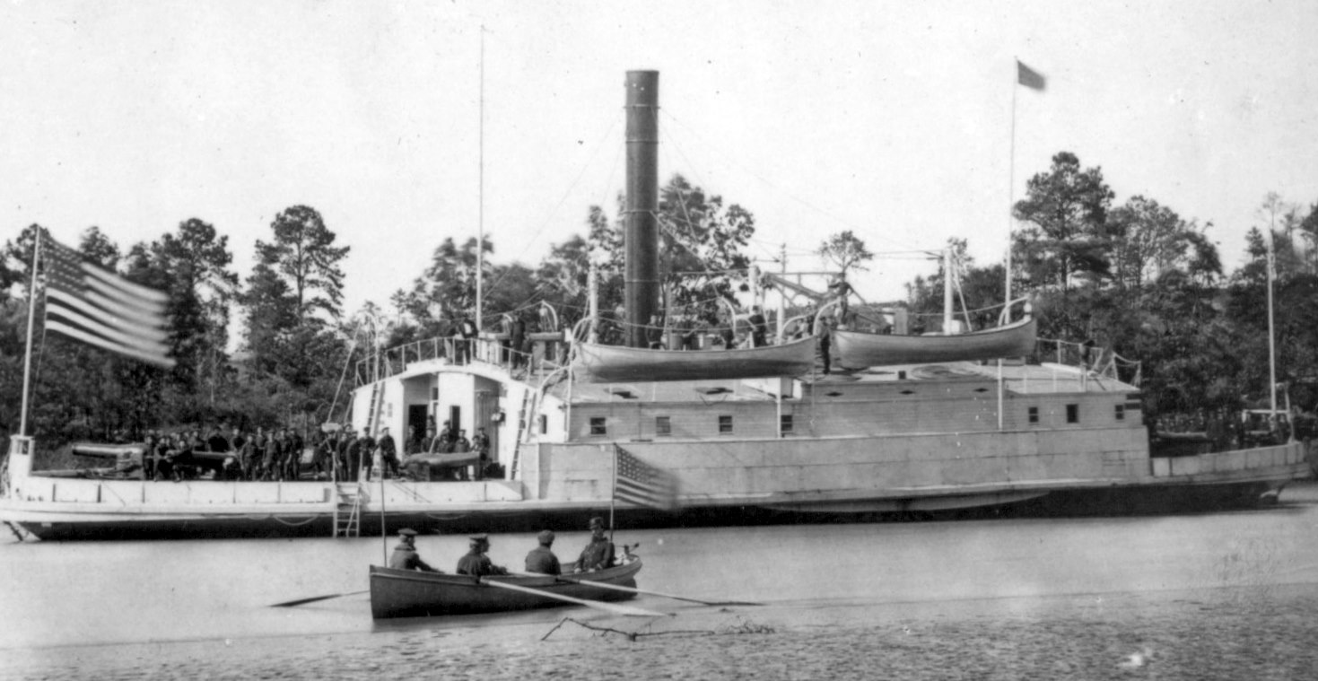 USS Commodore Perry, a ferryboat converted to a gunboat, Pamunkey River, Virginia, USA